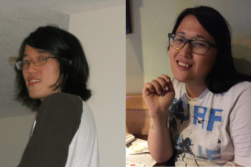 The first photograph (left) is that of myself less than 2 years before starting HRT (estradiol and spironolactone), and the second photograph (right) is after being on hormones for over two years.